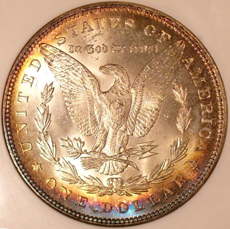 The reverse of an 1899 Morgan Silver Dollar. The coin in the photo exhibits peripheral rainbow toning.